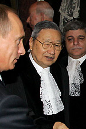 Shi Jiuyong at the UN International Court of Justice, The Hague, 2 November 2005.